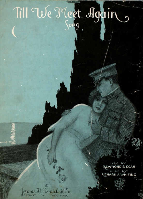 Sheet music for the 1918 song Till We Meet Again